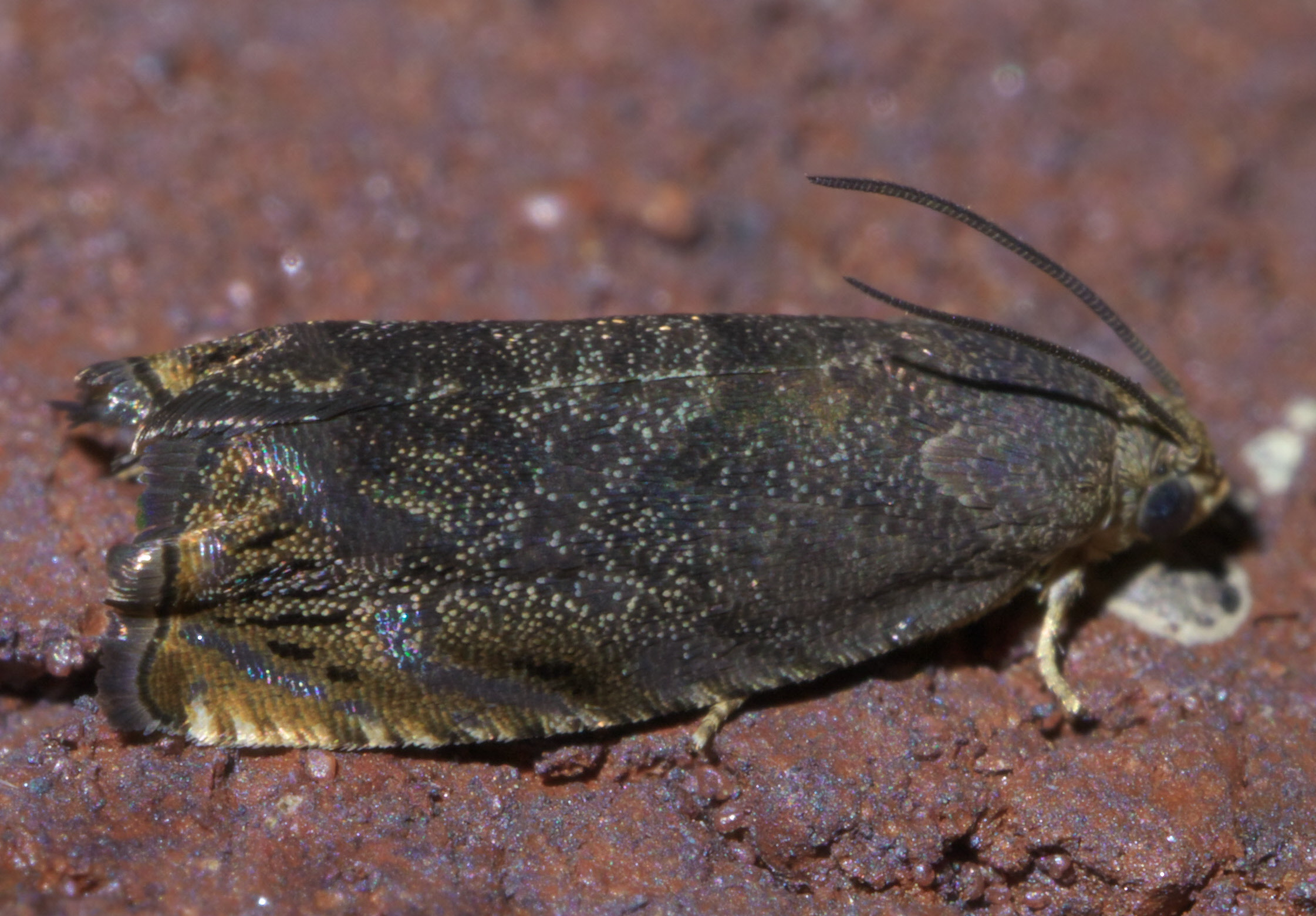 Cydia caryana, hickory shuckworm, Size: 7.2 mm, ID Confidence: 88